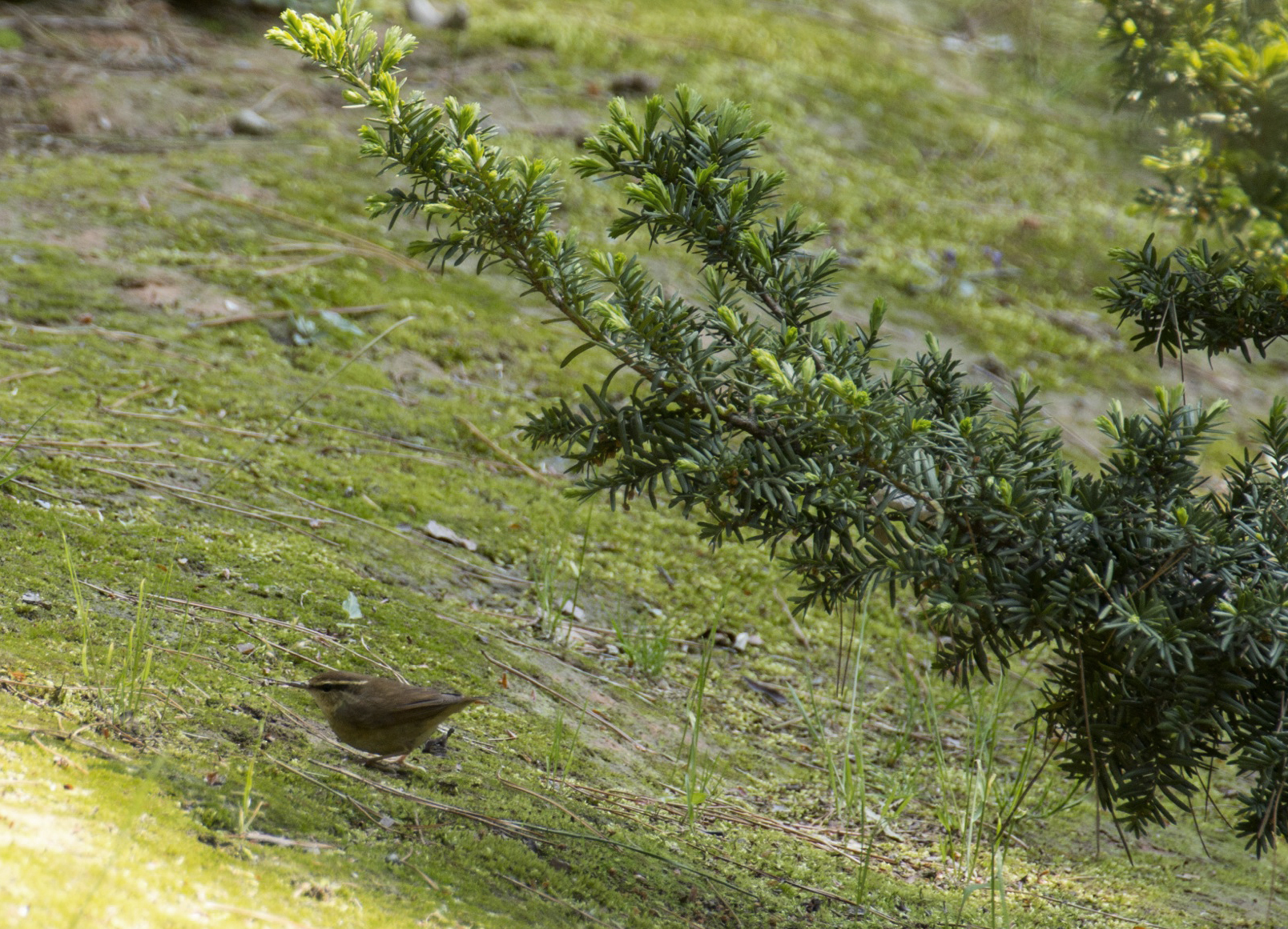 Asian Stubtail Urosphena squameiceps under Japanese Yew Taxus cuspidata foliage. Rojo Koen Park, Komatsu, Ishikawa, Japan